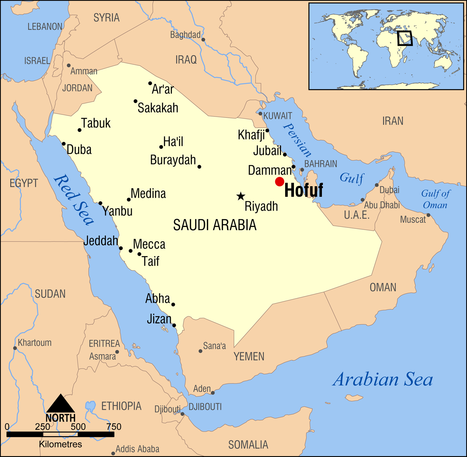 Locator map of Hofuf, Saudi Arabia. Created by NormanEinstein, May 5, 2006.